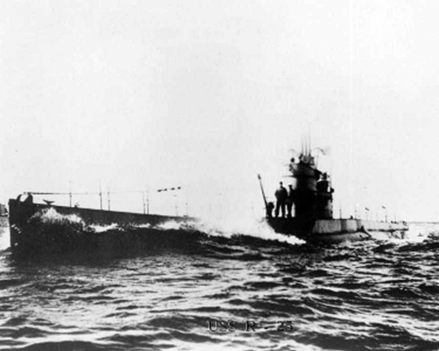 United States Navy submarine , probably at the Lake Torpedo Boat Company at Bridgeport, Connecticut.